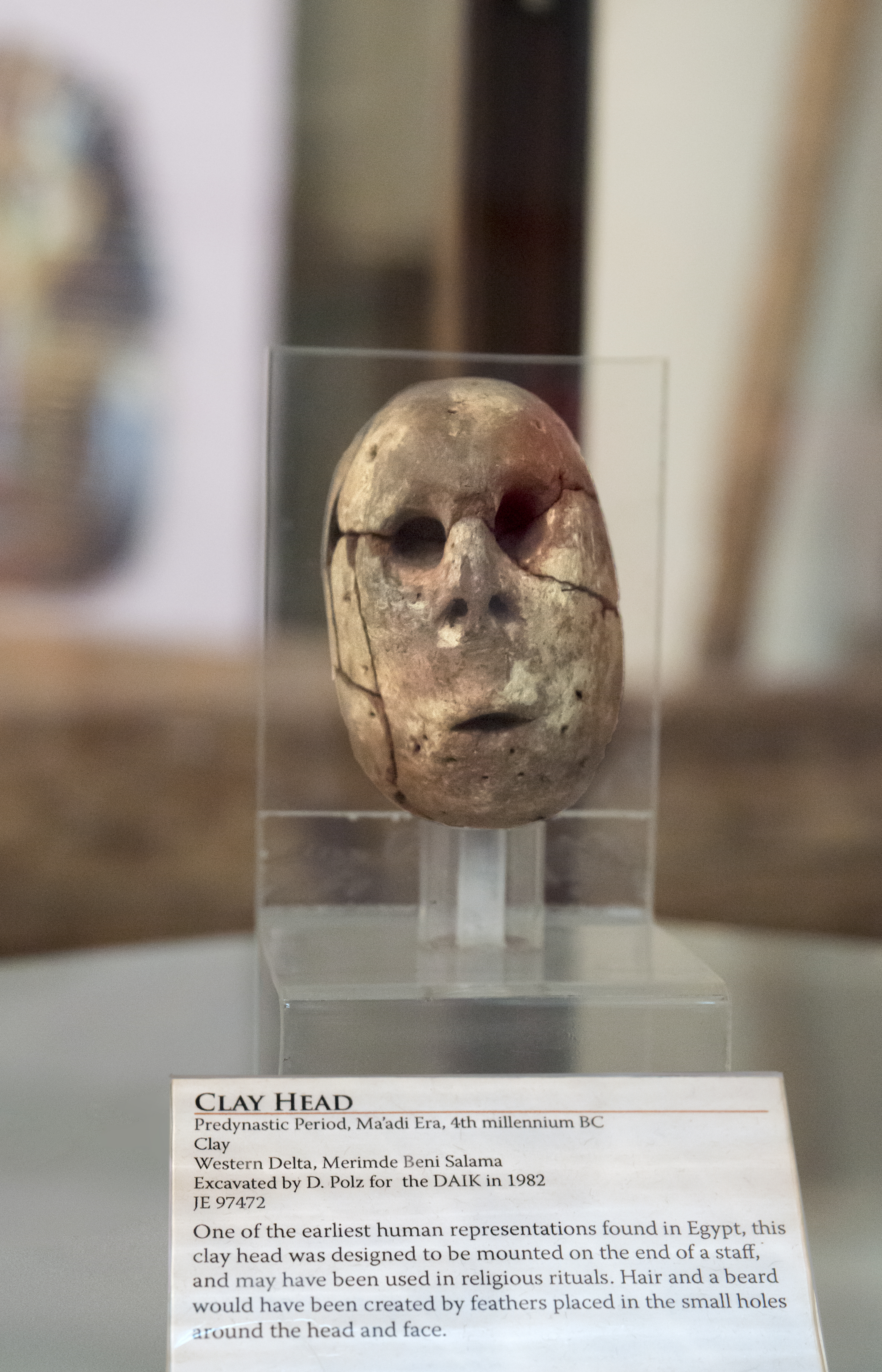 Clay Head Predynastic Period, Maadi Era, 4th millennium BCE Western Delta, Merimde Beni Salama; JE 97472 One of the earliest human representations found in Egypt